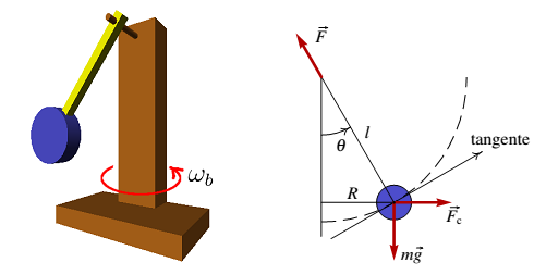 Pêndulo simples com a base em rotação no plano horizontal e diagrama de forças externas.